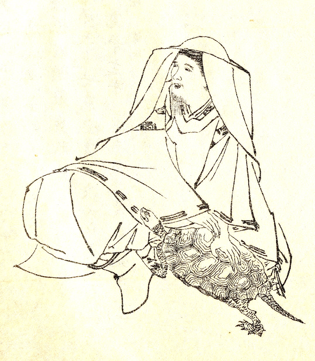 Fujiwara no Yamakage（藤原山蔭）was a Japanese court noble and poet in Heian period.